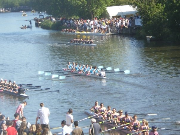 Wadham Women, summer eights 2009